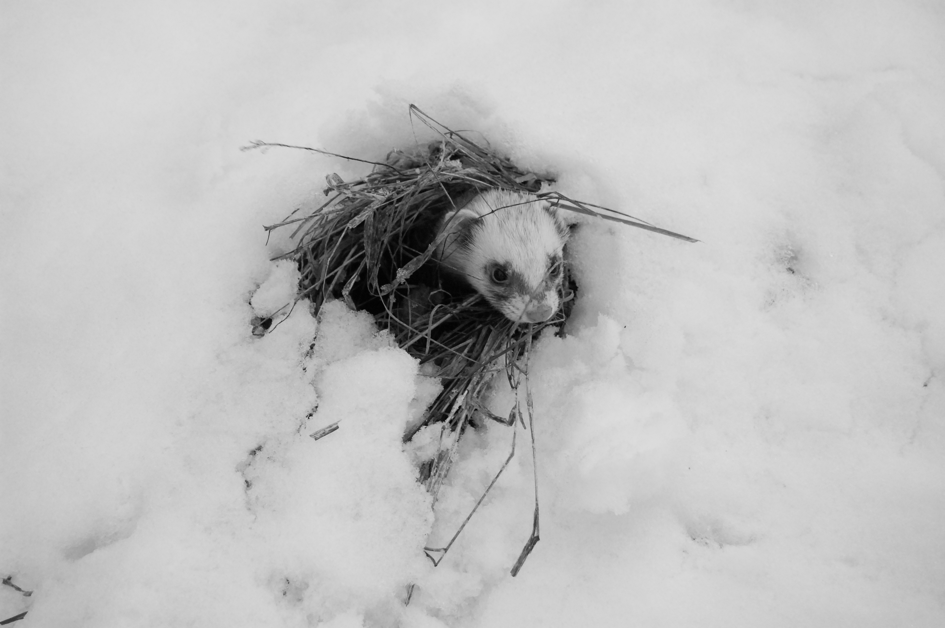 Mustela putorius furo (a ferret)